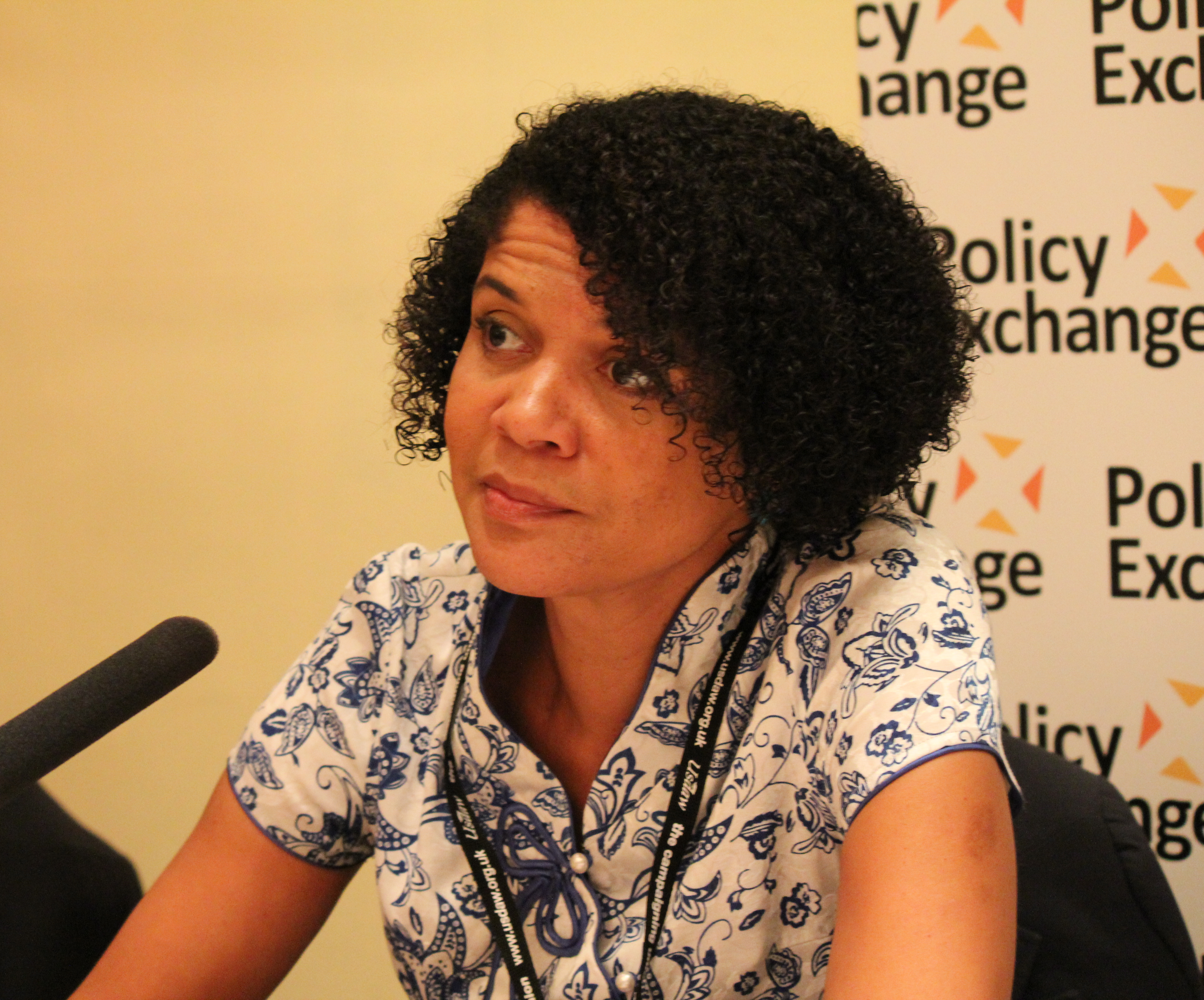 Chi Onwurah MP, Shadow Minister for the Cabinet Office